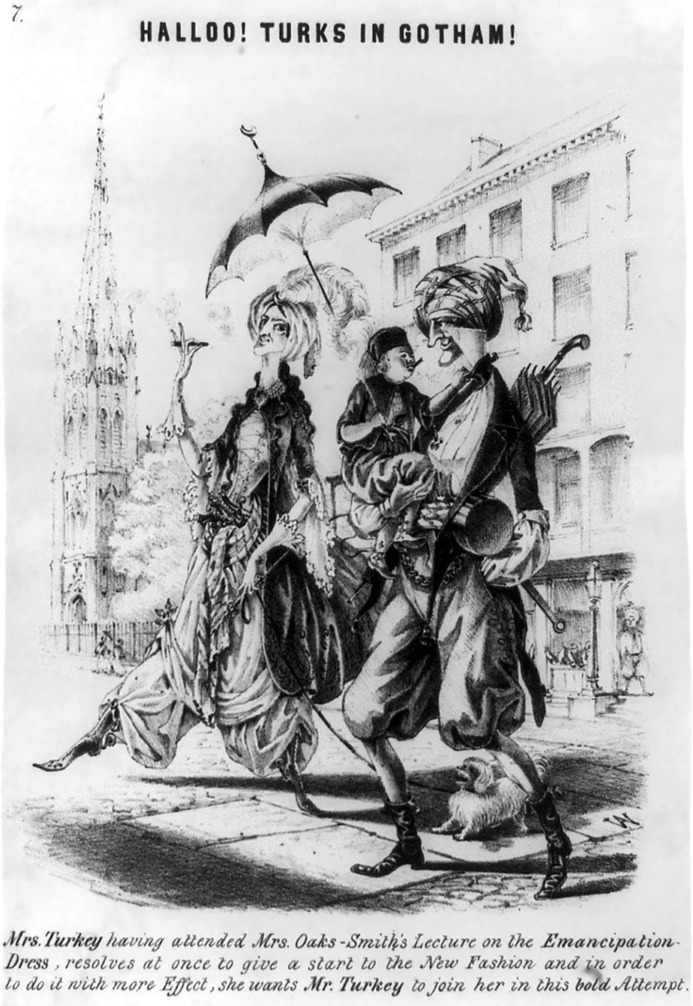 "Halloo! Turks in Gotham!", an 1851 caricature print, satirizing the feminist "Bloomer costume" (skirts considered short at the time worn over ankle-length harem pants) as being similar to Ottoman Turkish attire, with the comic premise that from wearing Bloomers it's only one additional small step to going whole hog and adopting full Turkish clothing (or rather, the caricaturist's humorous version of Turkish clothing) -- down to the lady's parasol, which has a crescent on top. ("Gotham" is of course the old nickname of New York City.) For additional (but somewhat unrelated) humorous effect, the woman is smoking a cigar, which was one standard method Victorian caricaturists used to signal an unwomanly woman. Caricature caption: "Mrs. Turkey having attended Mrs. Oaks-Smith's Lecture on the Emancipation Dress, resolves at once to give a start to the New Fashion, and in order to do it with more Effect, she wants Mr. Turkey to join her in this bold Attempt." (The word "bold" was emphasized by the caricaturist, because in 1851, women weren't really supposed to be bold -- in many contexts, the word "bold" as applied to a woman would be an insult.) Bibliographic information at LoC: TITLE: Halloo! Turks in Gotham CALL NUMBER: PC/US - 1851.A000, no. 18 (A size) [P&P] REPRODUCTION NUMBER: LC-USZ62-89604 (b&w film copy neg.) MEDIUM: 1 print : lithograph. CREATED/PUBLISHED: 1851. NOTES: Title appears as it is written on the item. Signed in stone: WA. SUBJECTS: Women--Clothing & dress--New York (State)--New York--1850-1860. FORMAT: Political cartoons. Lithographs. DIGITAL ID: (b&w film copy neg.) cph 3b35975 CARD #: app1999000789/PP